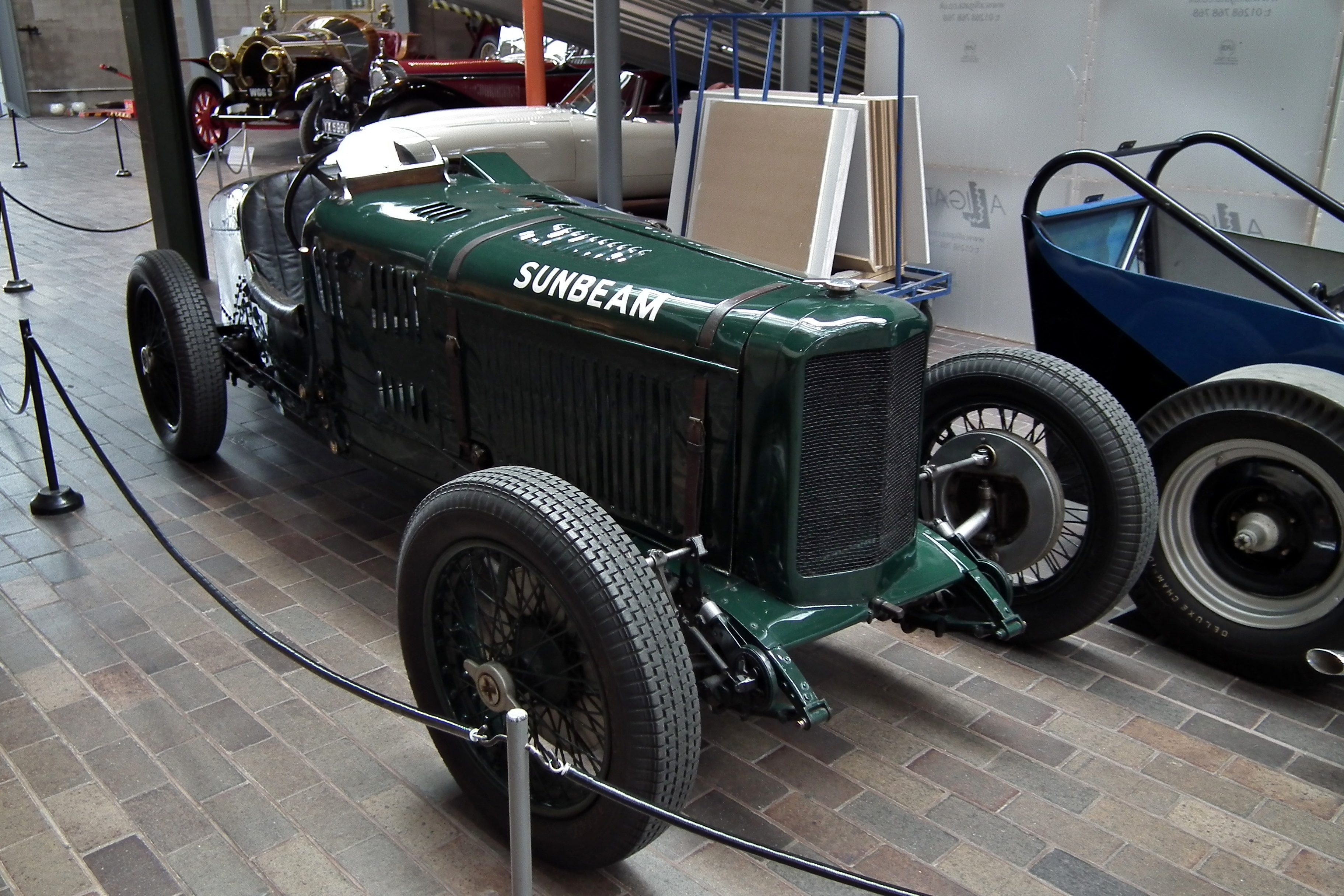 1924 Sunbeam Cub. Taken at the National Motor Museum in Beaulieu, Hampshire, England.